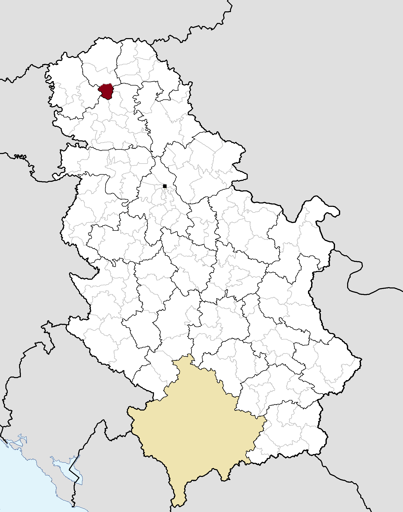 Municipal location in Serbia